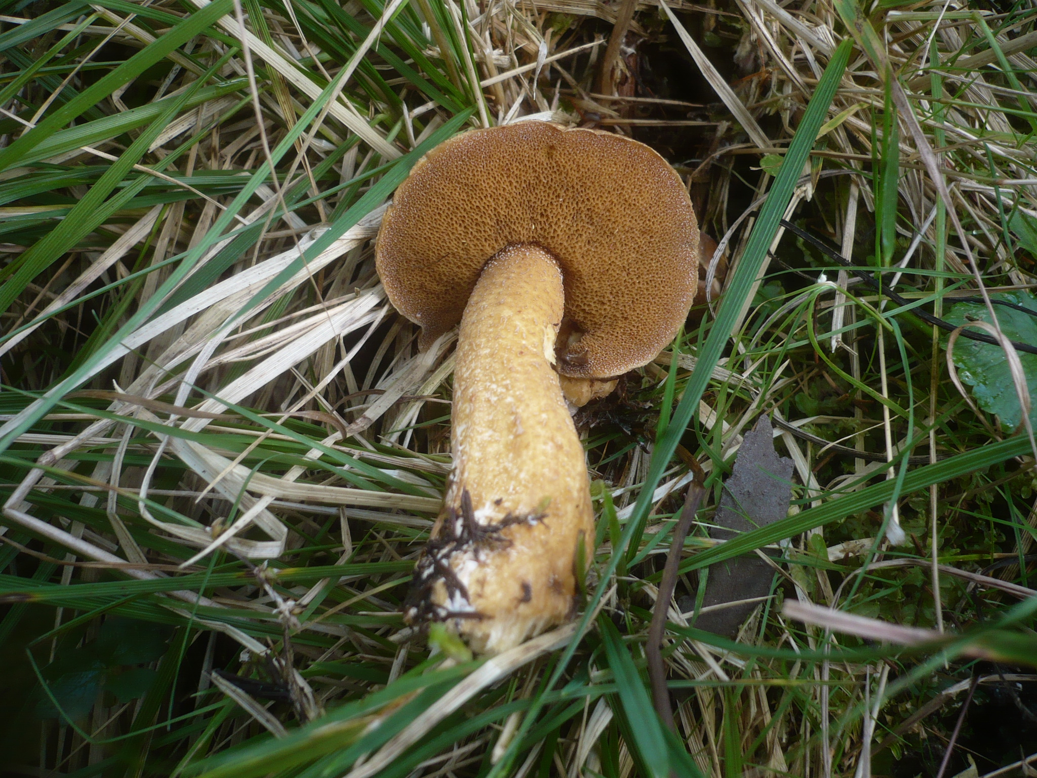 Fruit body of the bolete fungus Suillus plorans (Rolland) Kuntze. Photographed near Prebersee, Haiden, Bezirk Tamsweg, Salzburg, Austria.